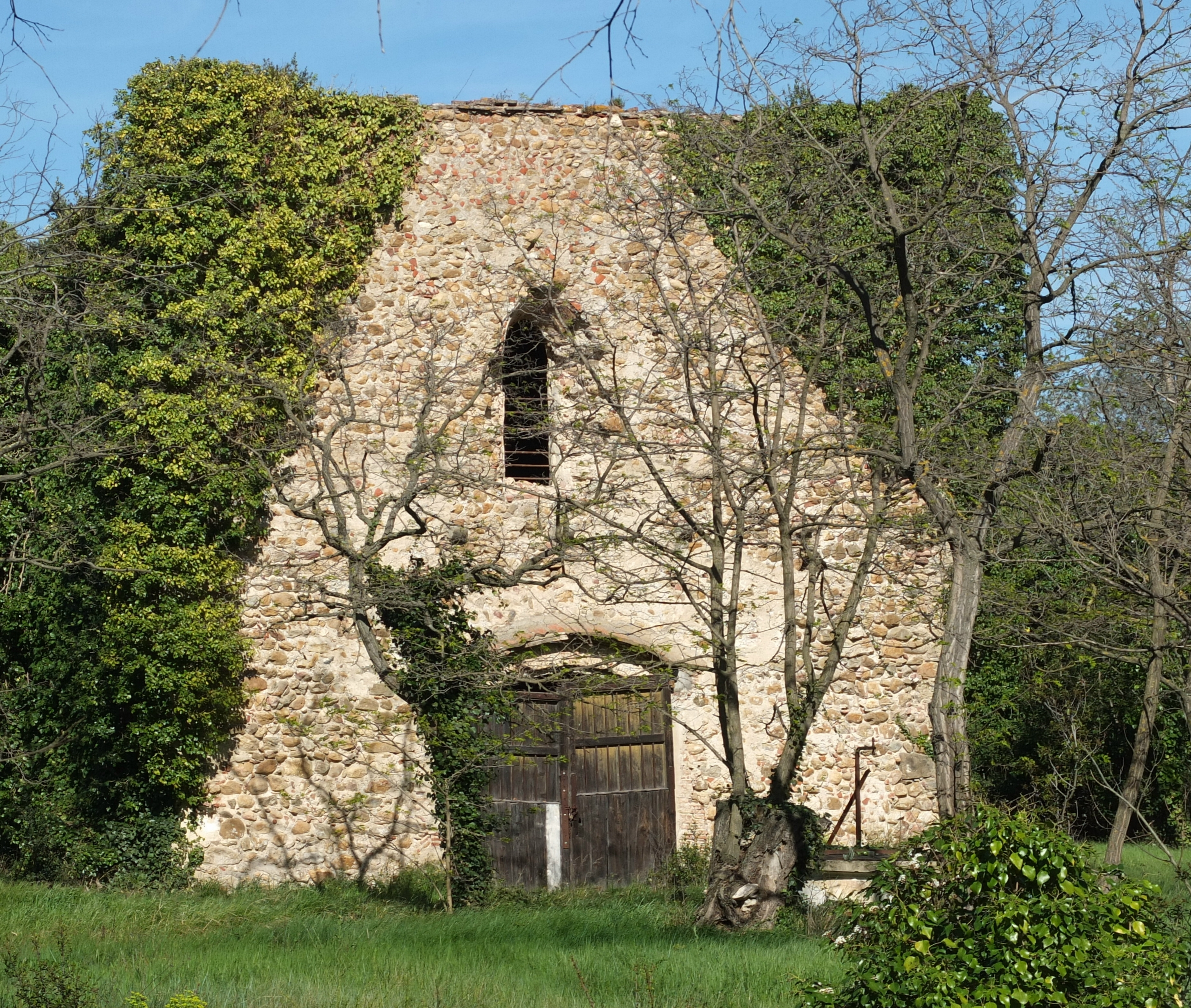 Chapel of the Commanderie du Mas-Déu, built in 1138 by the Templars, Trouillas, France (seen from SW)